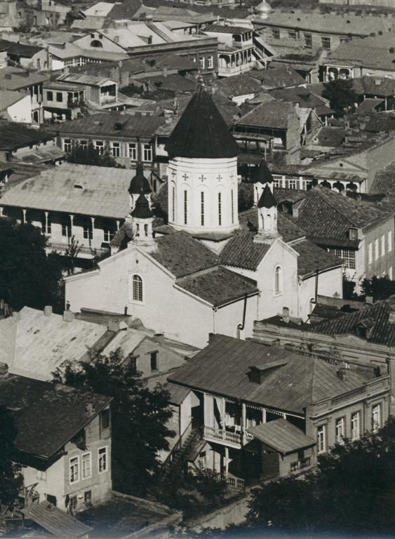 Moghni church in XIX century, photo made by D. Ermakov